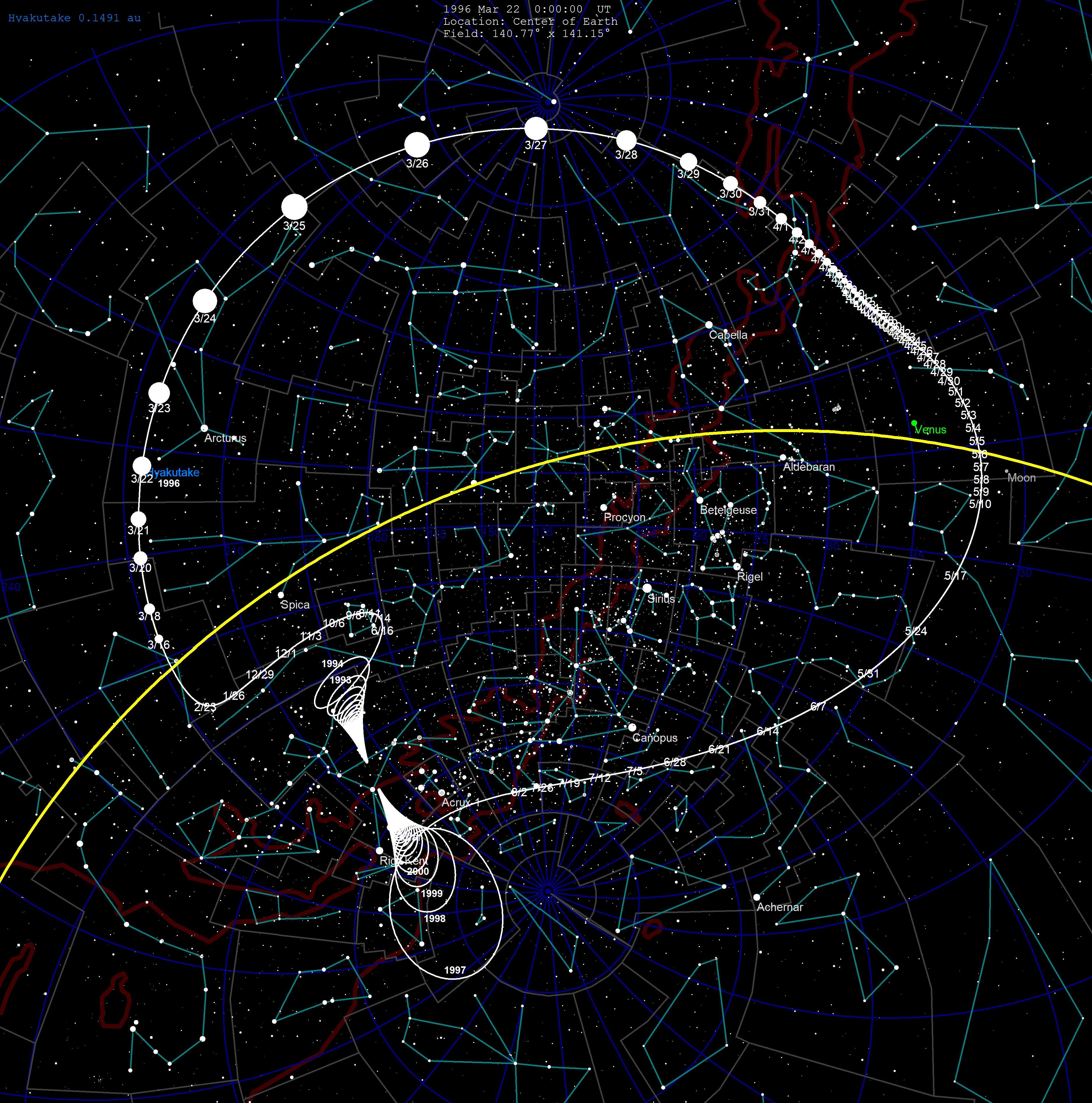 Comet Hyakutake motion across the sky, as seen from earth, with markers for every 1, 7,and 30 days of motion